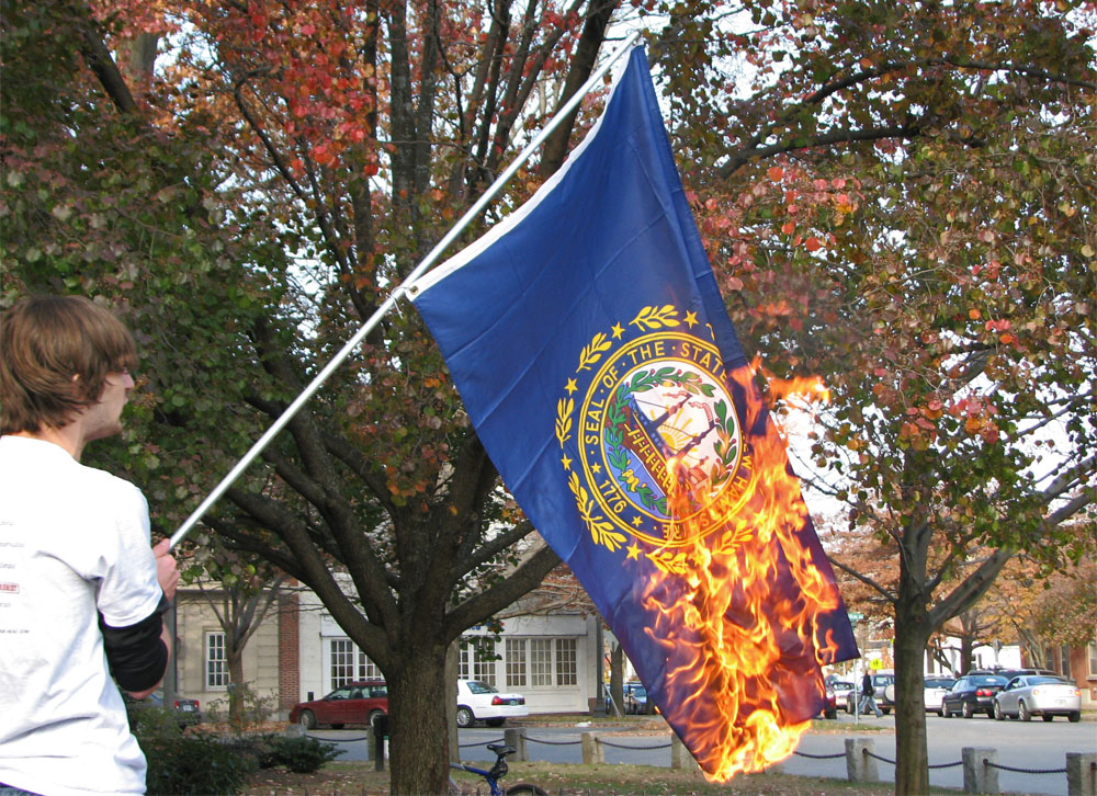 The flag of the US state of New Hampshire being burned.